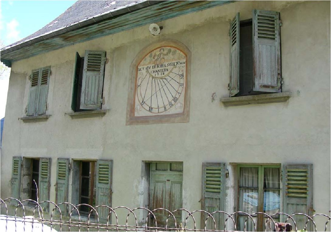 Sundial on the facade of an old inn. Decor: Two lilies Bacchus drink on a barrel in one hand a pitcher and the other a tumbler. He wears a wig and is of brocade jacket with breeches which stops at the knees followed by hoses The ten strings of a lyre represent hours of the dial of the afternoon. They join the soundboard bringing their numbers in Roman numerals. The rod is T. There is an equatorial line.